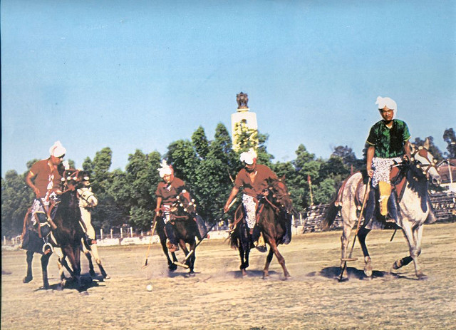 The traditional Manipuri Polo Sagol Kangjei, on which the modern game of Polo is thought to have been modeled in British India